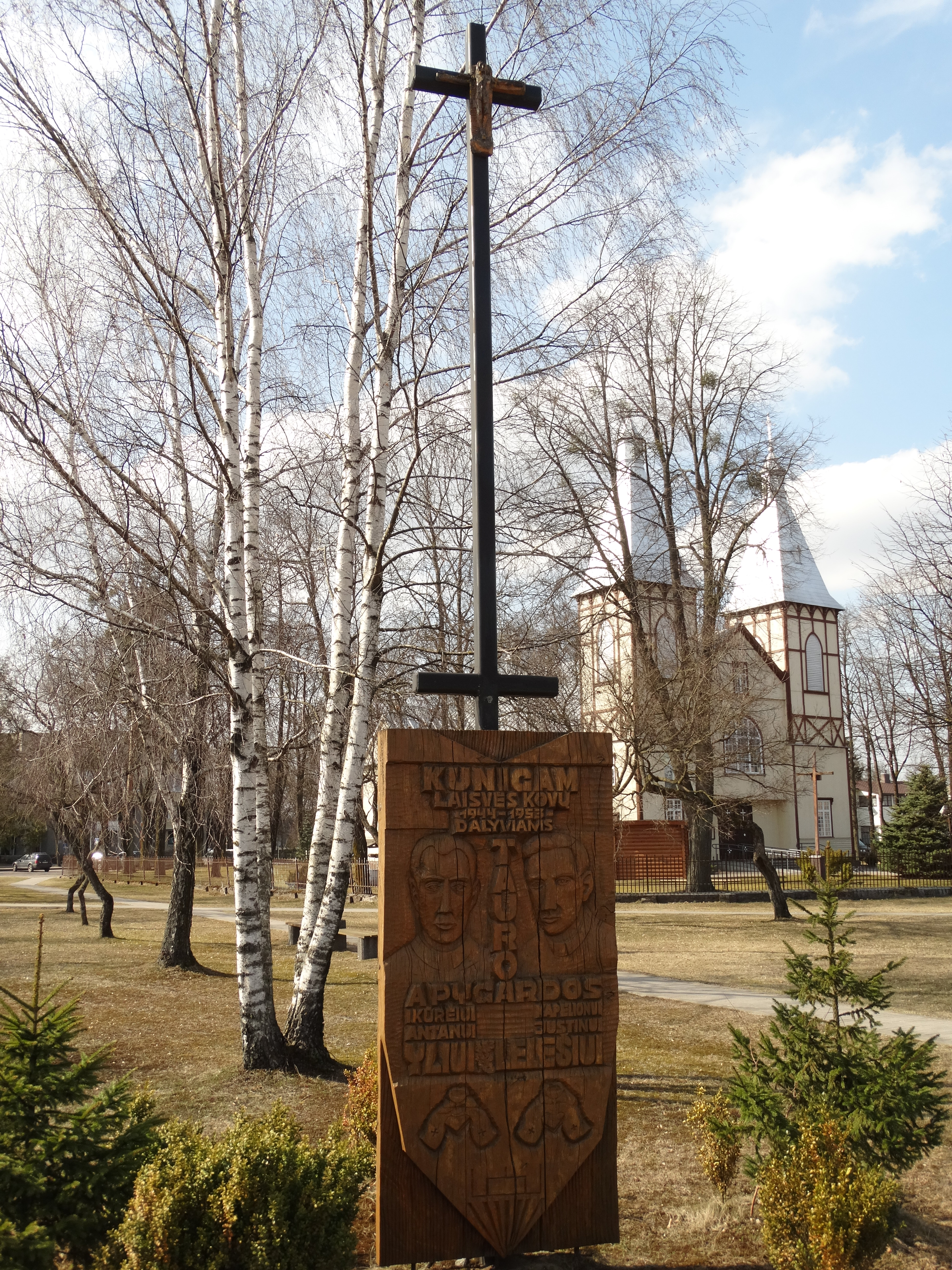 Memorial cross to priests Antanas Ylius and Justinas Lelešius, Kazlų Rūda, Lithuania